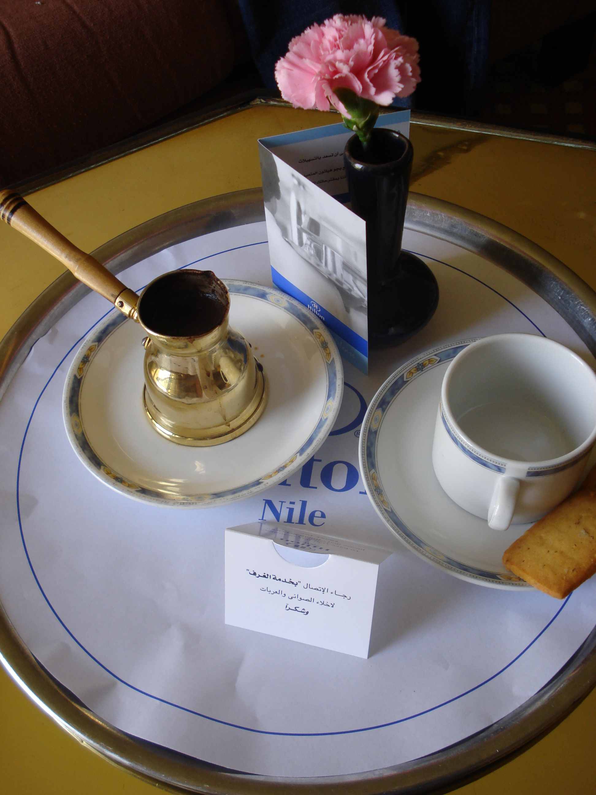 Turkish coffee at Cairo Hilton